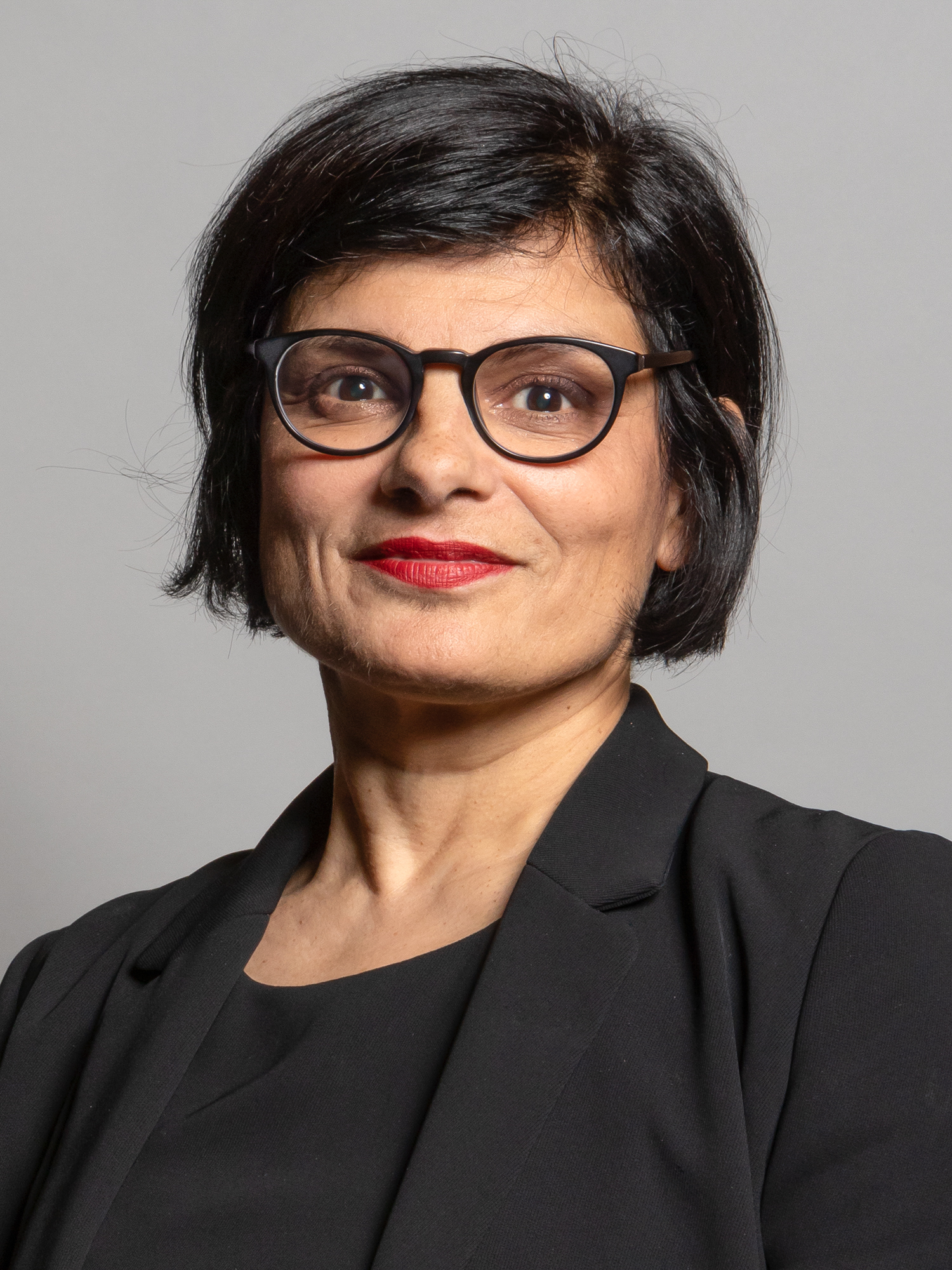 Official portrait of Thangam Debbonaire MP 3×4 portrait of Thangam Debbonaire